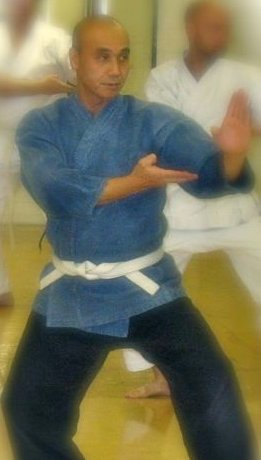 Matsuoi Yuji and Wansu kata